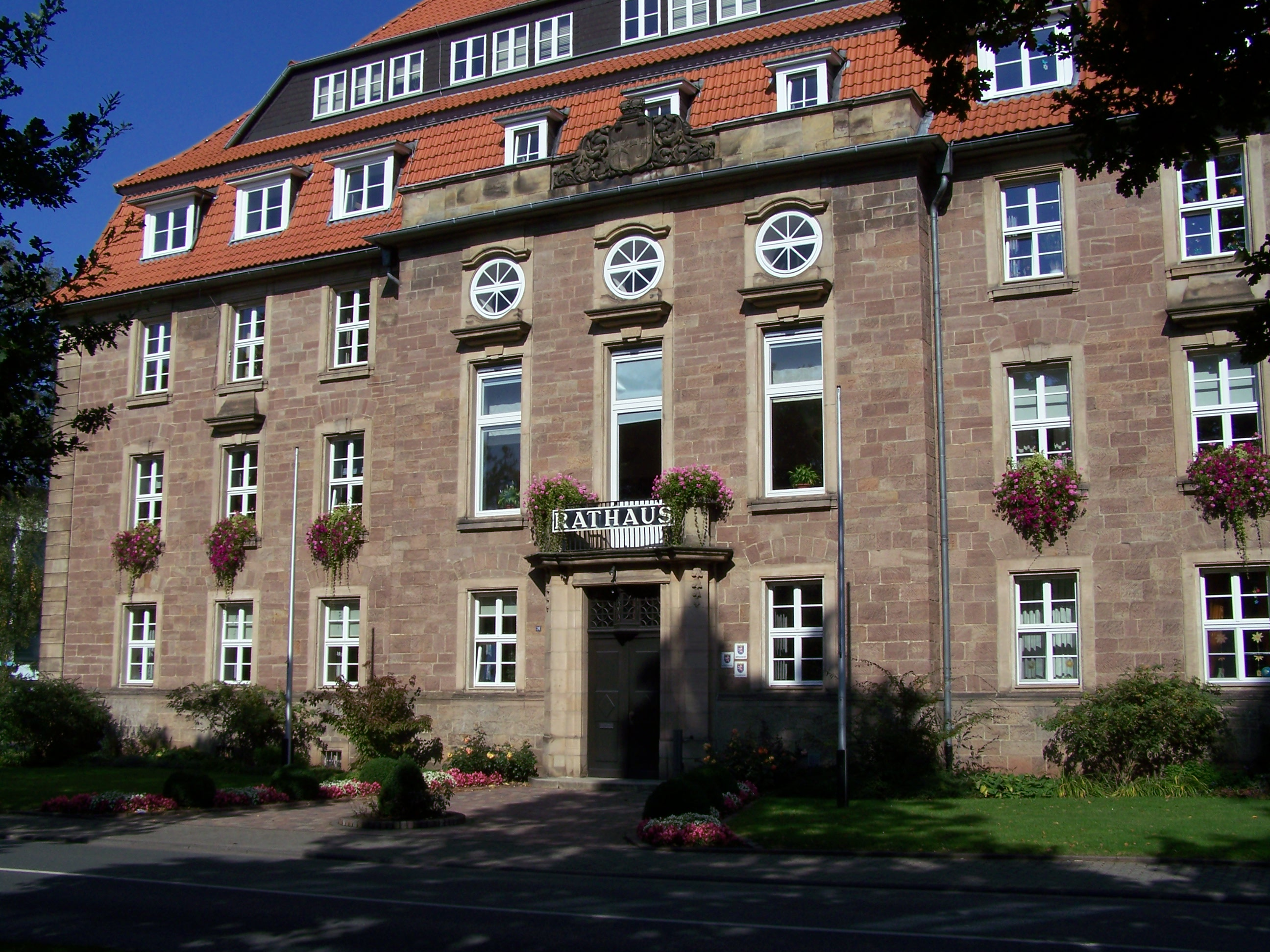 The "Rathaus" or City Government of Bad Arolsen